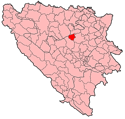 Location of Žepče municipality in Bosnia and Herzegovina.